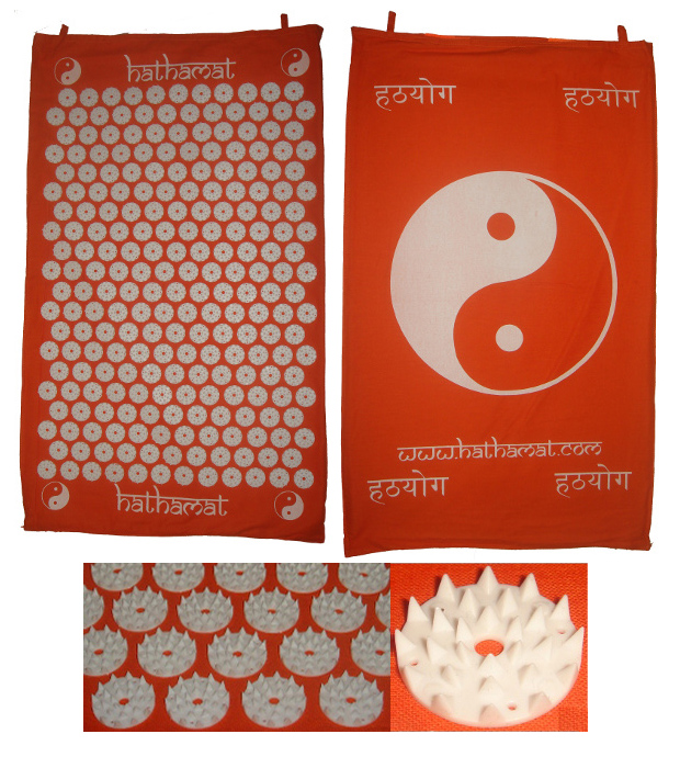 Modern version of the ancient bed of nail.